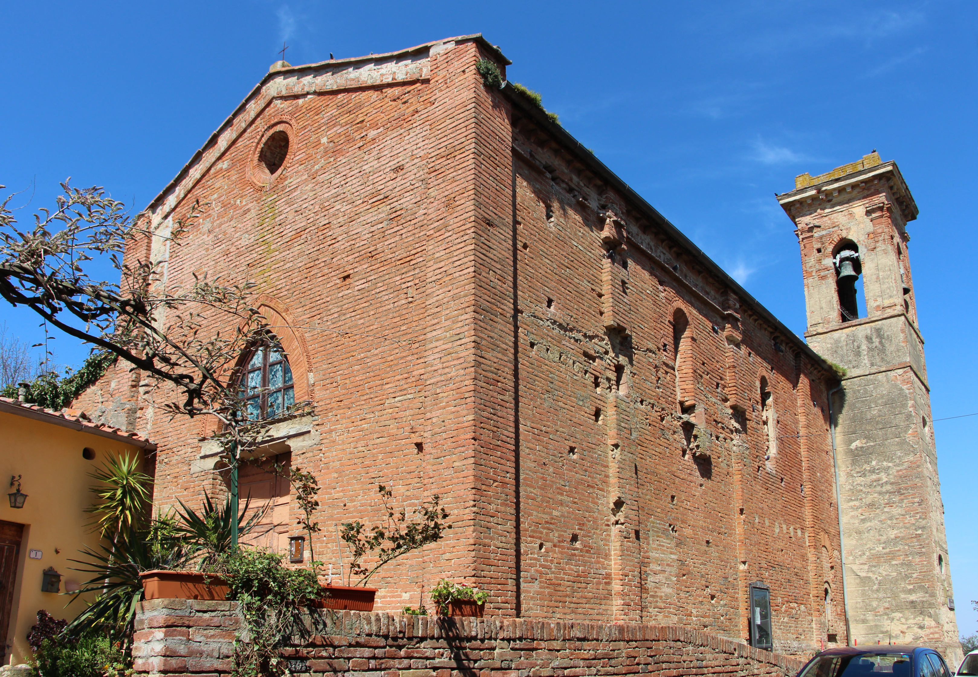 Palaia